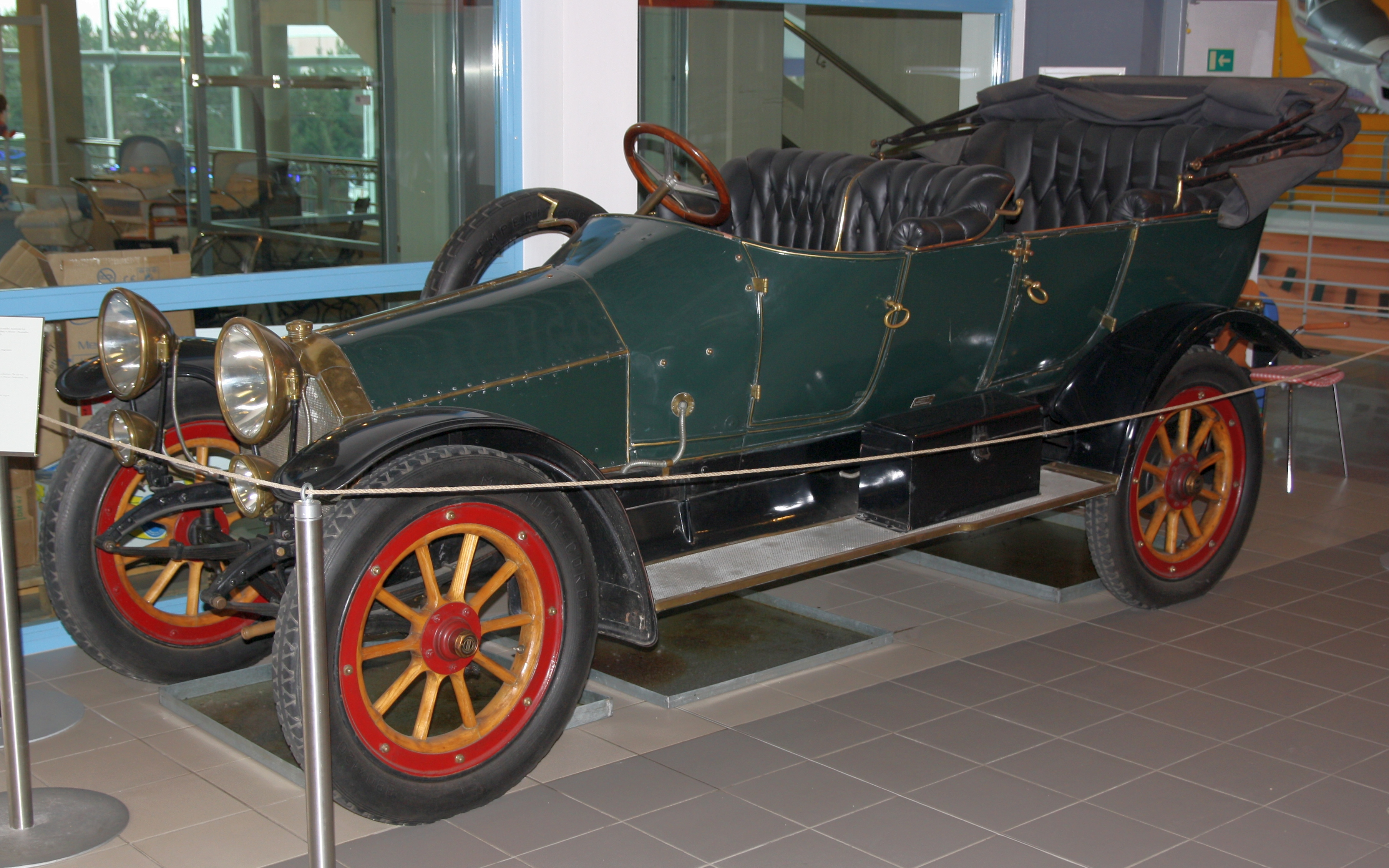 Austro-Daimler 20PS from 1910 in Technical museum Brno, Czech Republic. Originally owned by count Mitrovský.